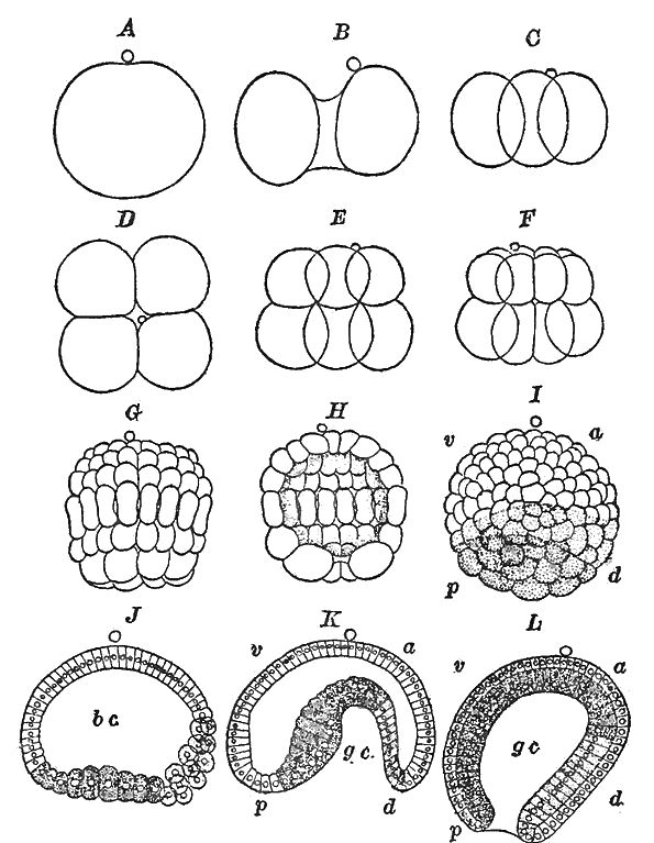 Fig. 10. Successive stages in the cleavage and gastrulation of Amphiodus. A, one cell; B, two cells; C and D, four cells; E, eight cells; F, sixteen cells; G, blastula stage of about ninety-six cells; H, section through the same showing the cleavage cavity; I, blastula seen from the left side showing three zones of cells, viz., and upper clear zone of ectoderm, a middle (faintly shaded) zone of mesoderm and a lower (deeply shaded) zone of entoderm cells; J, section through the same showing these three types of cells; K and L, successive stages in the gastrulation; cells indicated as in the preceding figure. In all figures except D the polar body is shown at the upper pole. Figs A-H after Hatschek; Figs. I-L after Korschekt and Heider and Cerfontain. a, anterior; p, posterior; v, ventral; d, dorsal; bc, blastorcoel; gc, gastrocoel.